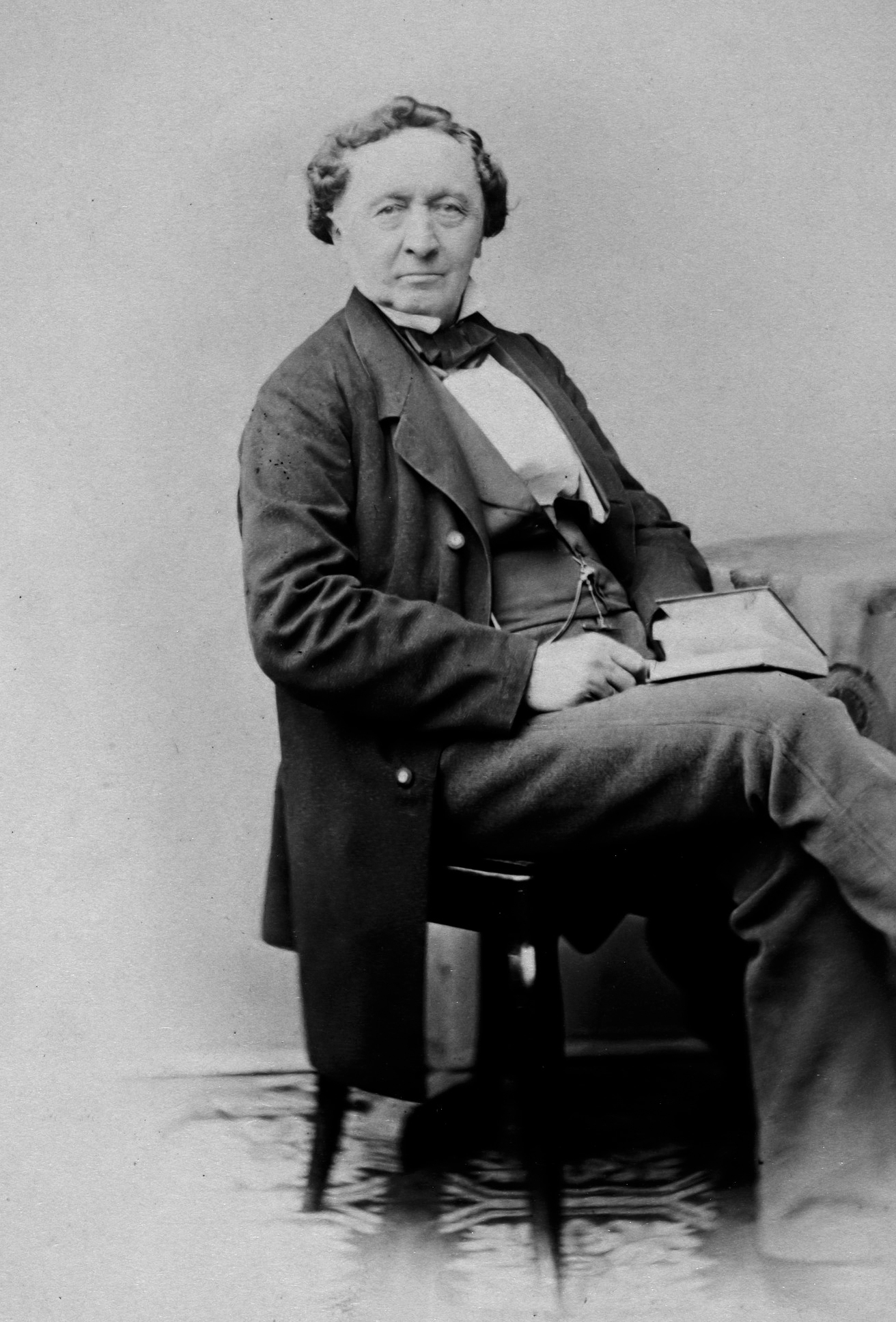 Carl Dittmarsch circa 1860